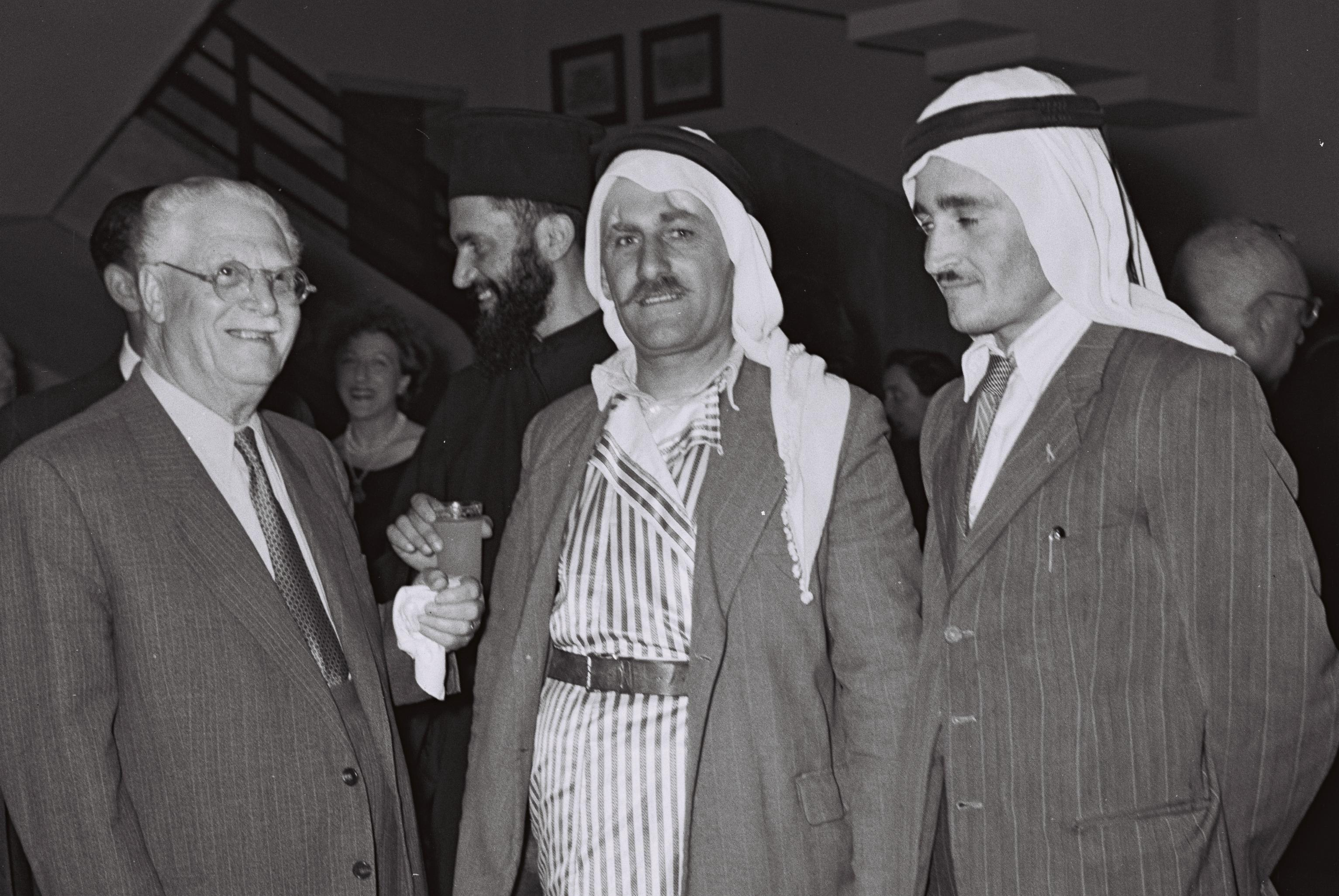 Haifa mayor Shabtai Levy with two distinguished Arab guests, at the independence day reception, in Haifa.